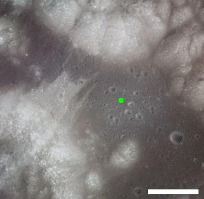 Green dot shows location of Powell, Taurus-Littrow Valley, on the moon. Scale bar at lower right is 5 km.